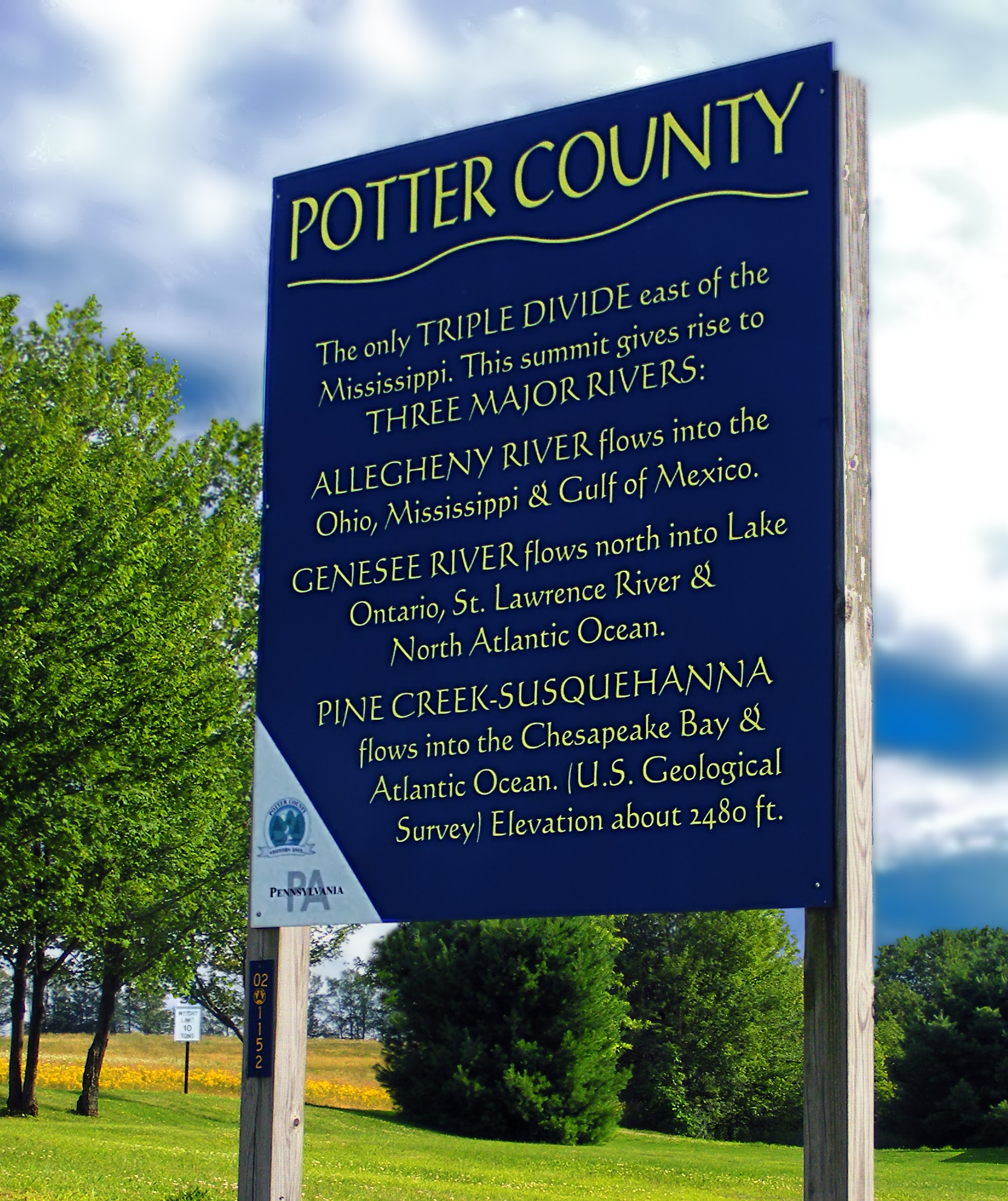 Triple Divide sign at the junction of Rooks Road and PA Route 449 in Potter County. The headwaters of the Allegheny and Genesee Rivers, as well as Pine Creek, are found along an unnamed, farm- and field-blanketed hill. (Pine Creek ultimately flows into the Susquehanna River and is itself more of a river than a creek.) Although its elevation is about 2540 feet (774 meters), the hill forms only a slight rise on the Allegheny Plateau.